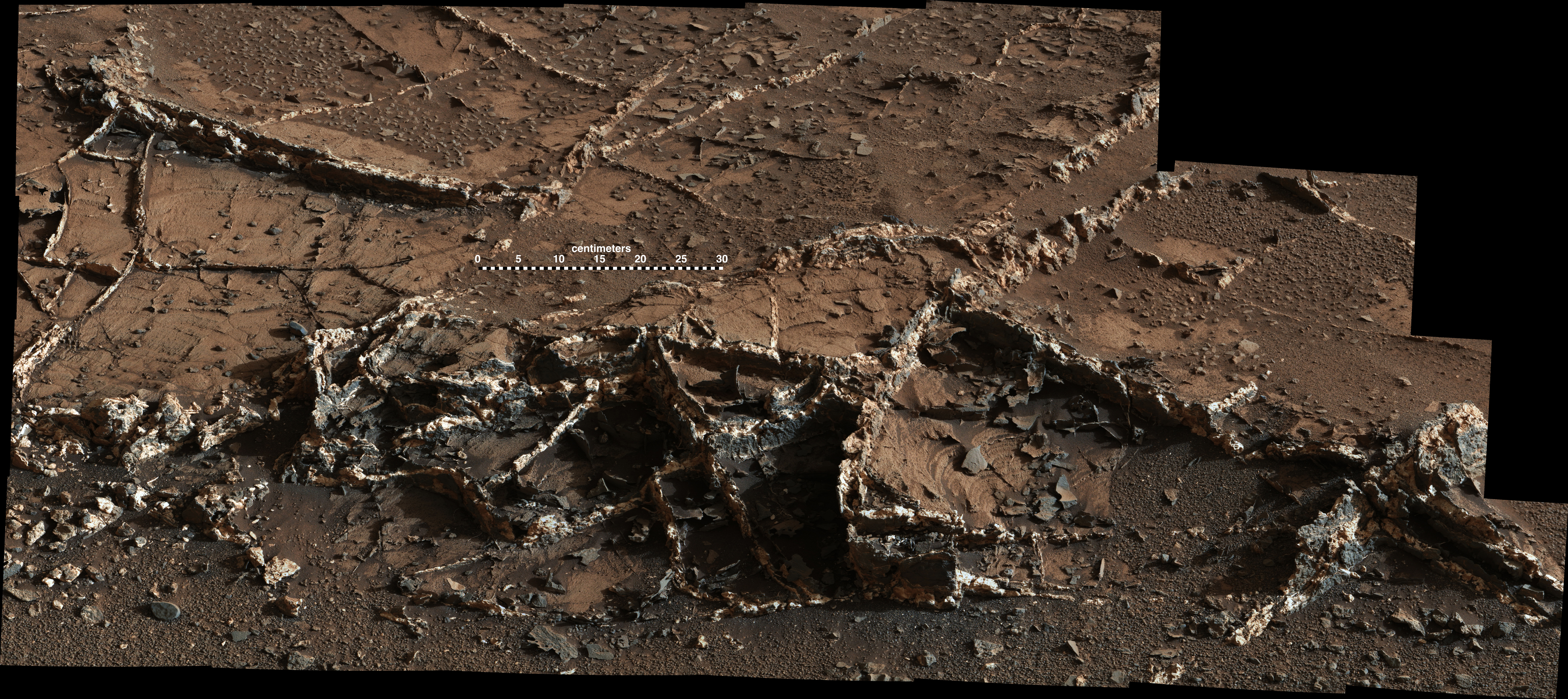 PIA19161: Prominent Veins at 'Garden City' on Mount Sharp, Mars This March 18, 2015, view from the Mast Camera on NASA's Curiosity Mars rover shows a network of two-tone mineral veins at an area called 'Garden City' on lower Mount Sharp. The veins combine light and dark material. The veins at this site jut to heights of up to about 2.5 inches (6 centimeters) above the surrounding rock, and their widths range up to about 1.5 inches (4 centimeters). Figure 1 includes a 30-centimeter scale bar (about 12 inches). Mineral veins such as these form where fluids move through fractured rocks, depositing minerals in the fractures and affecting chemistry of the surrounding rock. In this case, the veins have been more resistant to erosion than the surrounding host rock. This scene is a mosaic combining 28 images taken with Mastcam's right-eye camera, which has a telephoto lens with a focal length of 100 millimeters. The component images were taken on March 18, 2015, during the 929th Martian day, or sol, of Curiosity's work on Mars. The color has been approximately white-balanced to resemble how the scene would appear under daytime lighting conditions on Earth. Malin Space Science Systems, San Diego, built and operates the rover's Mastcam. NASA's Jet Propulsion Laboratory, a division of the California Institute of Technology, Pasadena, manages the Mars Science Laboratory Project for NASA's Science Mission Directorate, Washington. JPL designed and built the project's Curiosity rover. More information about Curiosity is online at and Photojournal Note: Also available is the full resolution TIFF file PIA19161_full.tif. This file may be too large to view from a browser; it can be downloaded onto your desktop by right-clicking on the previous link and viewed with image viewing software.